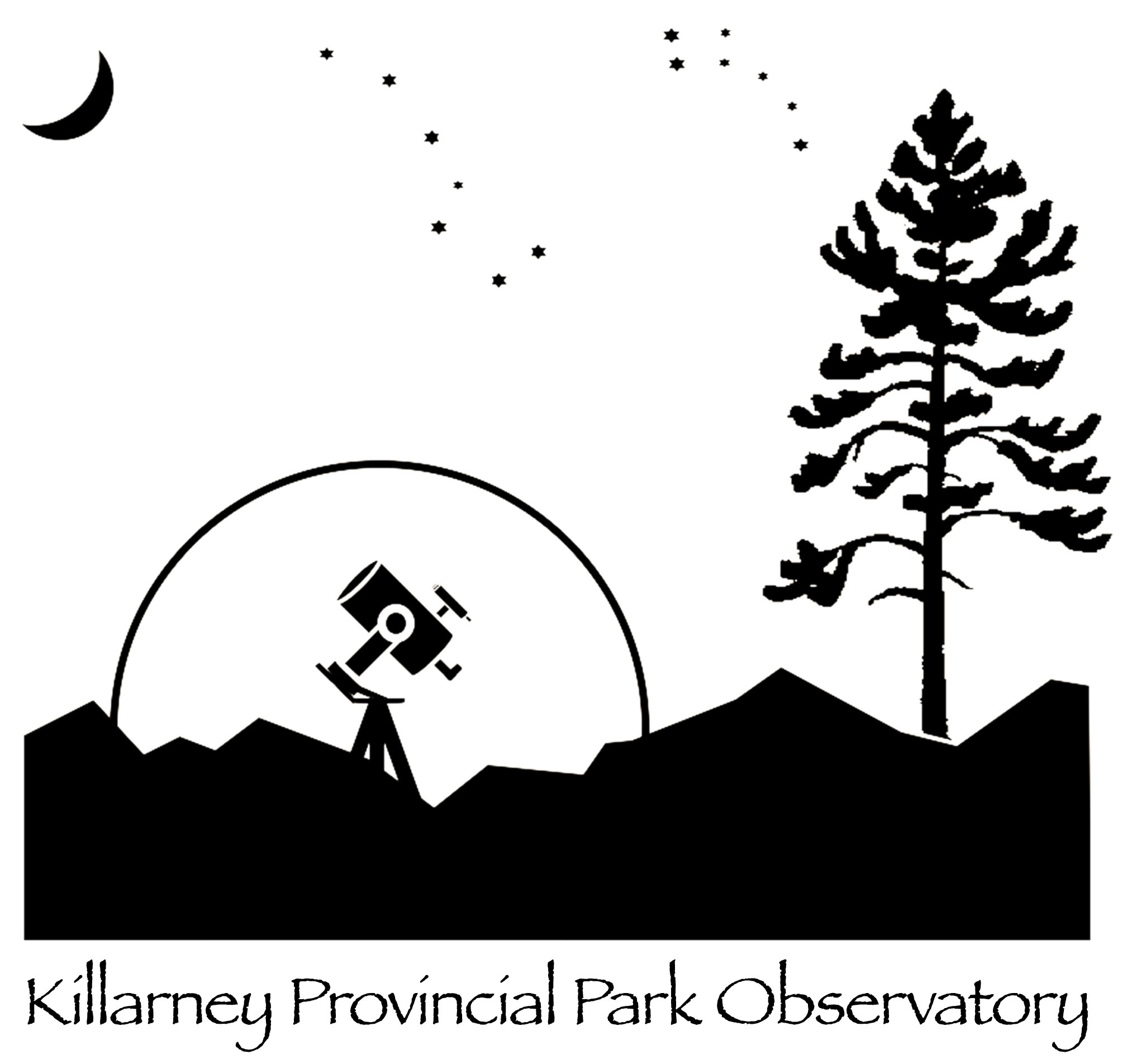 Killarney Provincial Park Observatory Logo